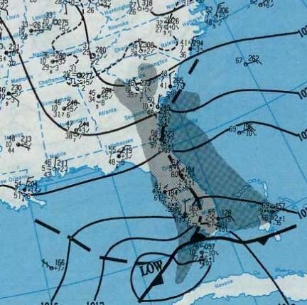 Surface weather analysis of a nor'easter on 21 December 1994.